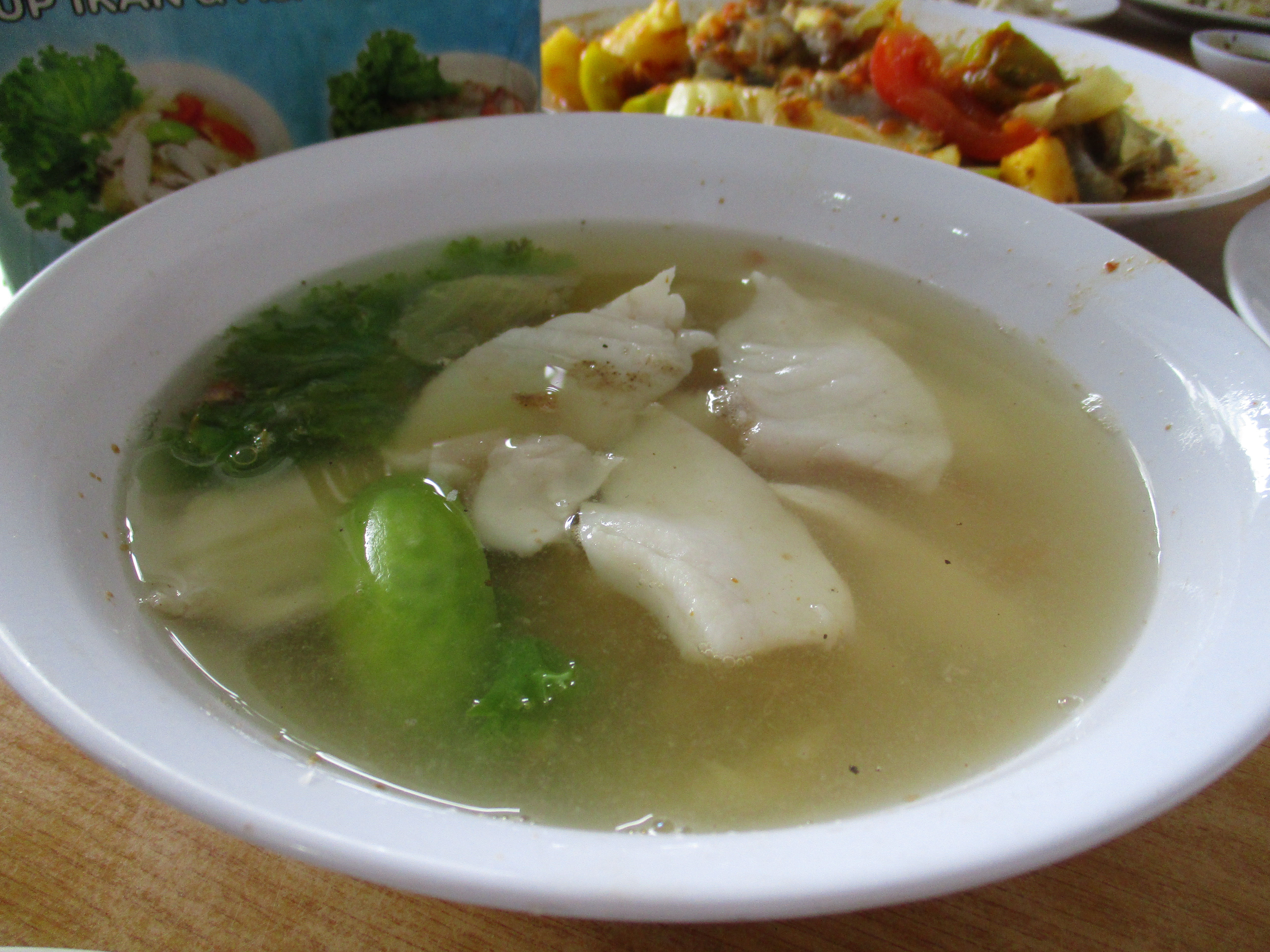 Batam Fish Soup, cuisine of Batam Island, Riau Islands.